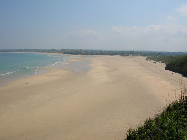 Porth Kidney Sands. The large stretch of beach with estuary splitting it from joining Hayle Towans.